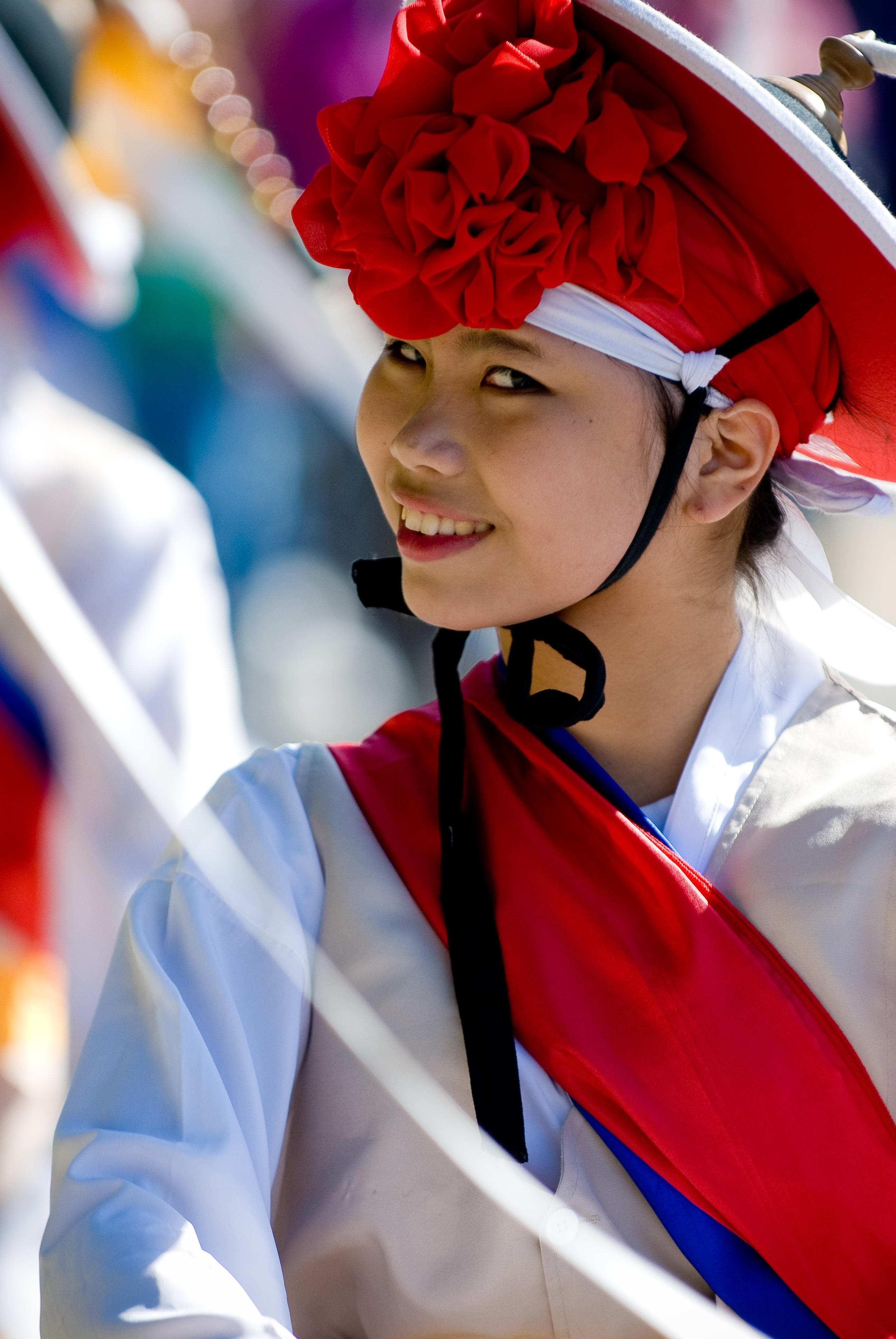 A Korean traditional female dancer smiles during the 2008 Yongsan Fall Festival Parade Oct. 11 on Yongsan Garrison, Seoul, Republic of Korea.